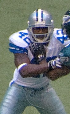 Philadelphia Eagles running back Brian Westbrook runs with the ball handed off by quarterback Donovan McNabb in a game Dec. 16, 2007 against the Dallas Cowboys.